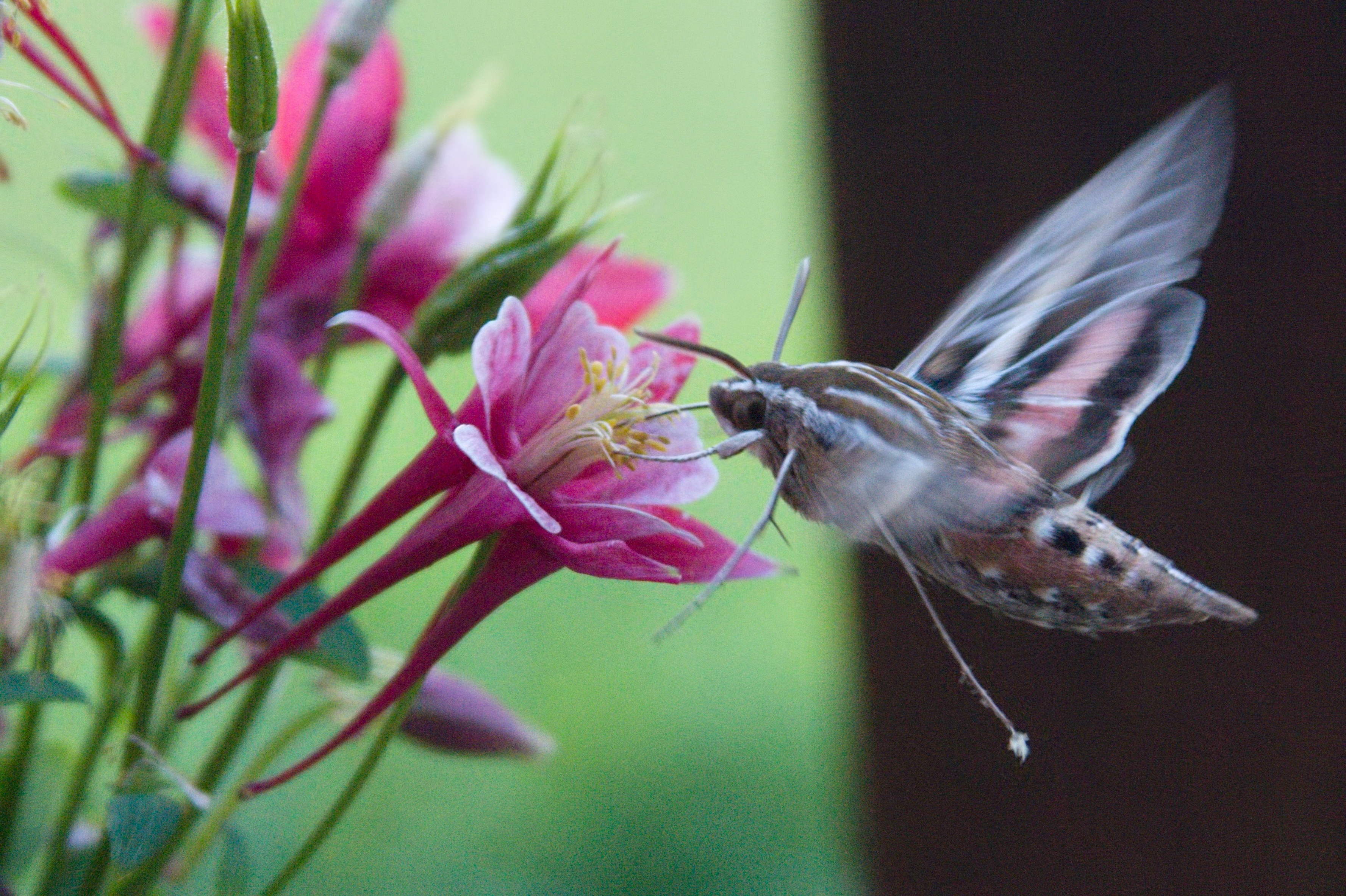 White-lined sphinx (Hyles lineata) on Columbine (Aquilegia hybrida)